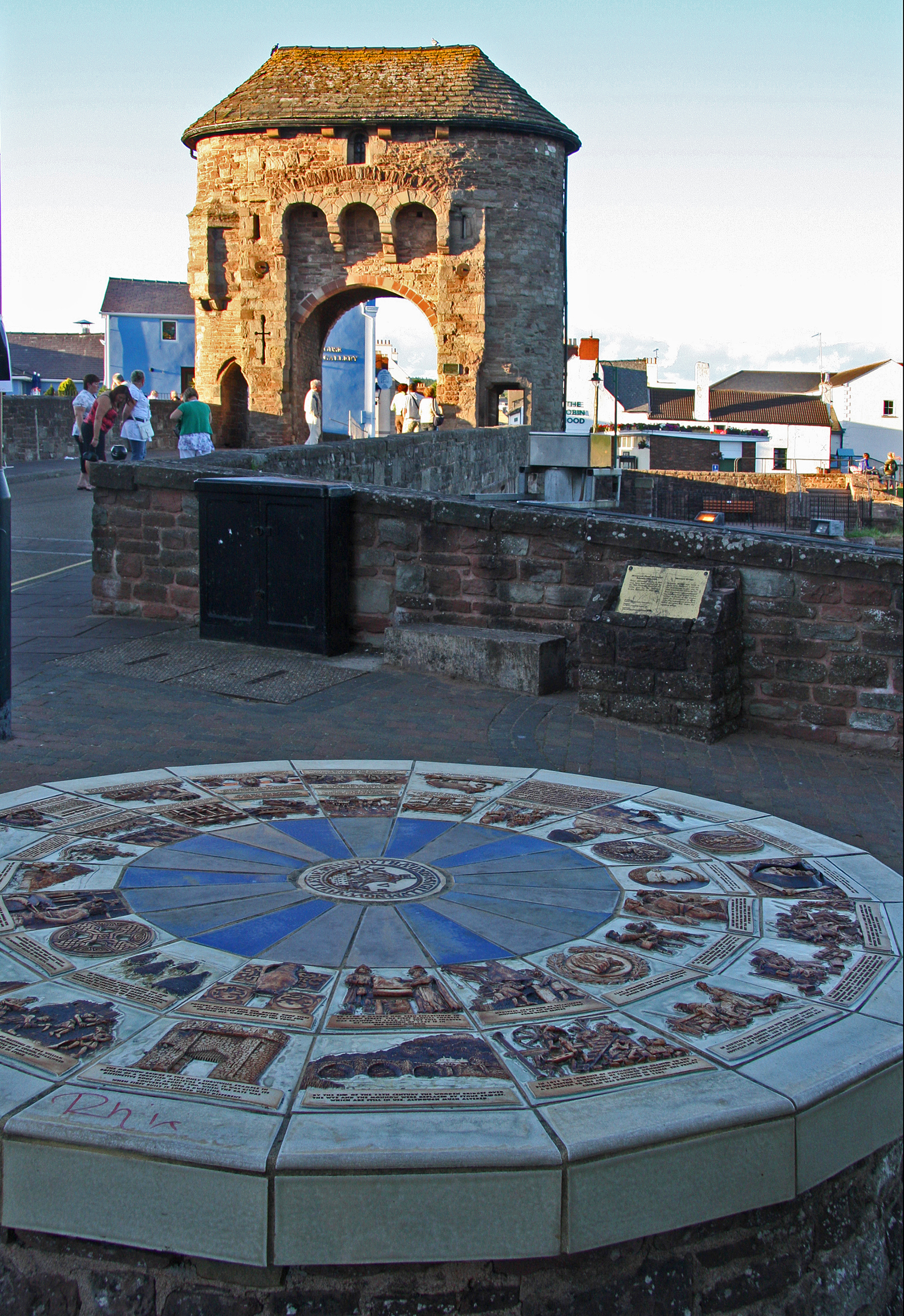 The impressive millennium plinth in the foreground. This incorporates 40 individually designed ceramic tiles, each depicting an important event in Monmouth’s long history, starting in the Iron Age and continuing through to the 20th century. View Large On Black